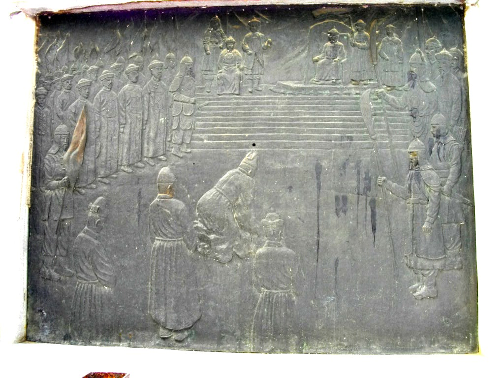 Samjeondo Monument